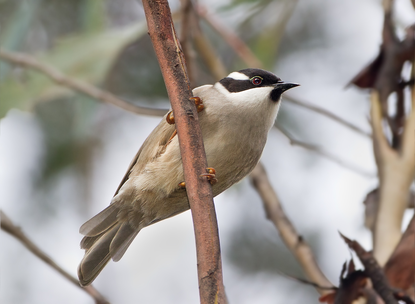 Strong-billed Honeyeater (Melithreptus validirostris), Myrtle forest, Tasmania, Australia